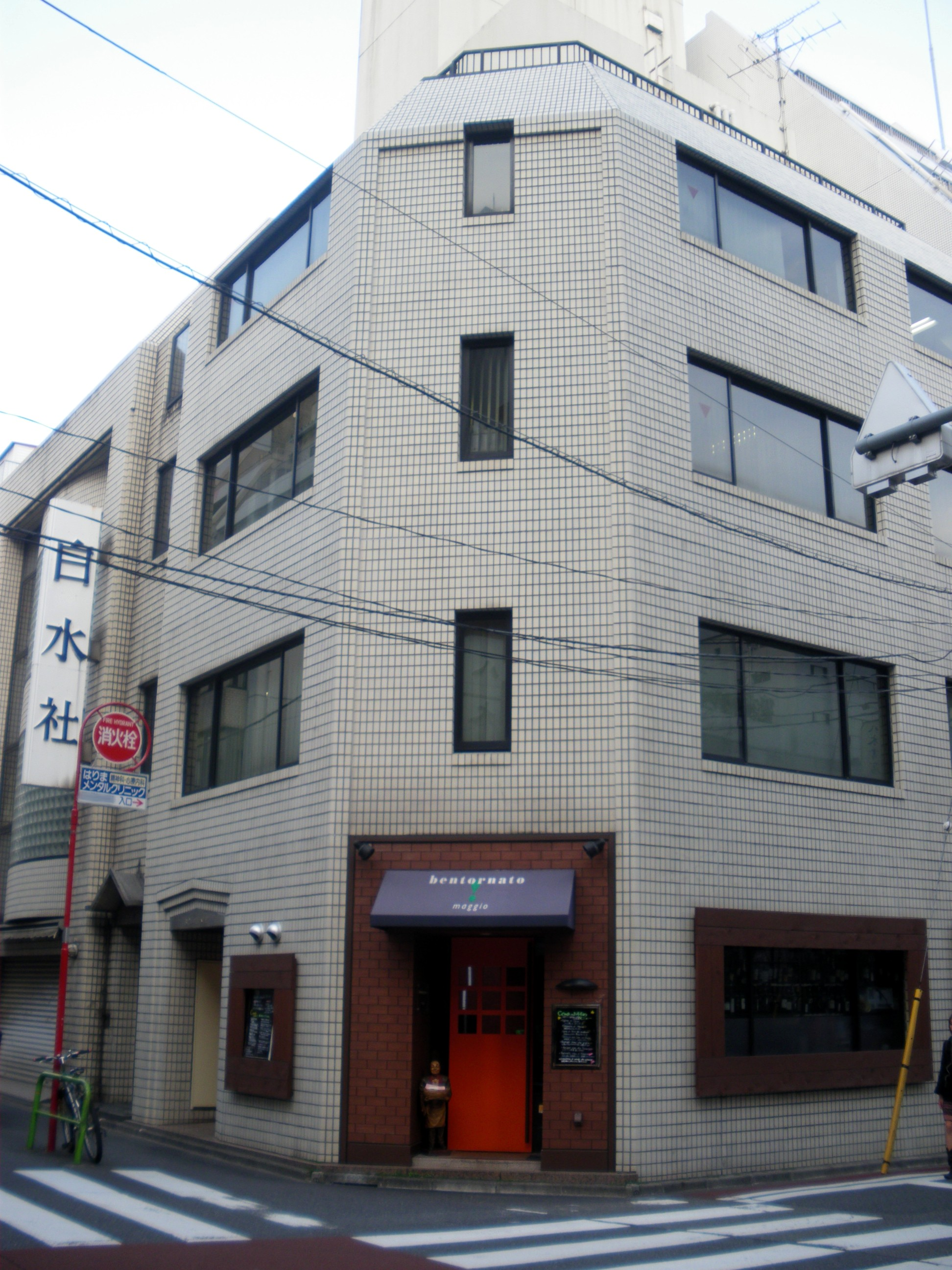 Hakusuisha(Kandaogawamachi,Chiyoda,Tokyo)